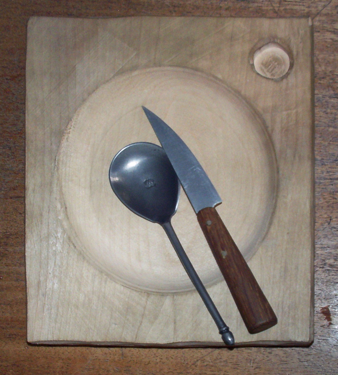 Tudor_trencher